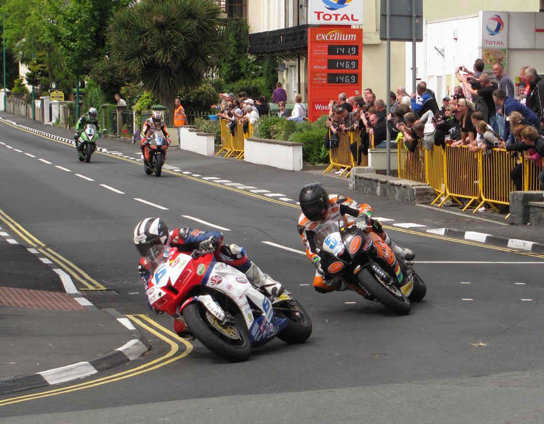 Supersport TT Race Parliament Square, Ramsey, Isle of Man.